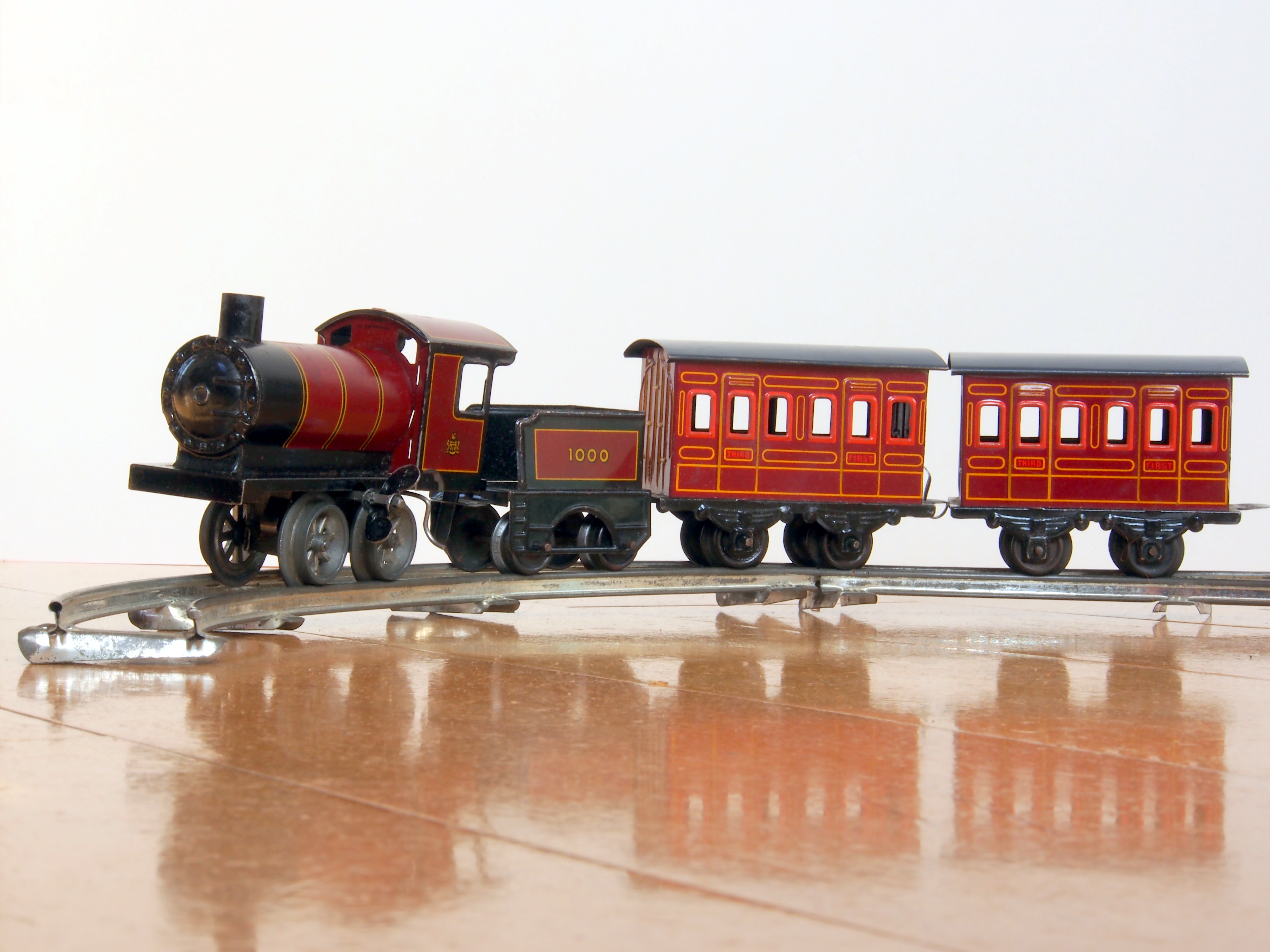 Made in Germany Tin clockwork toy train from around 1900.